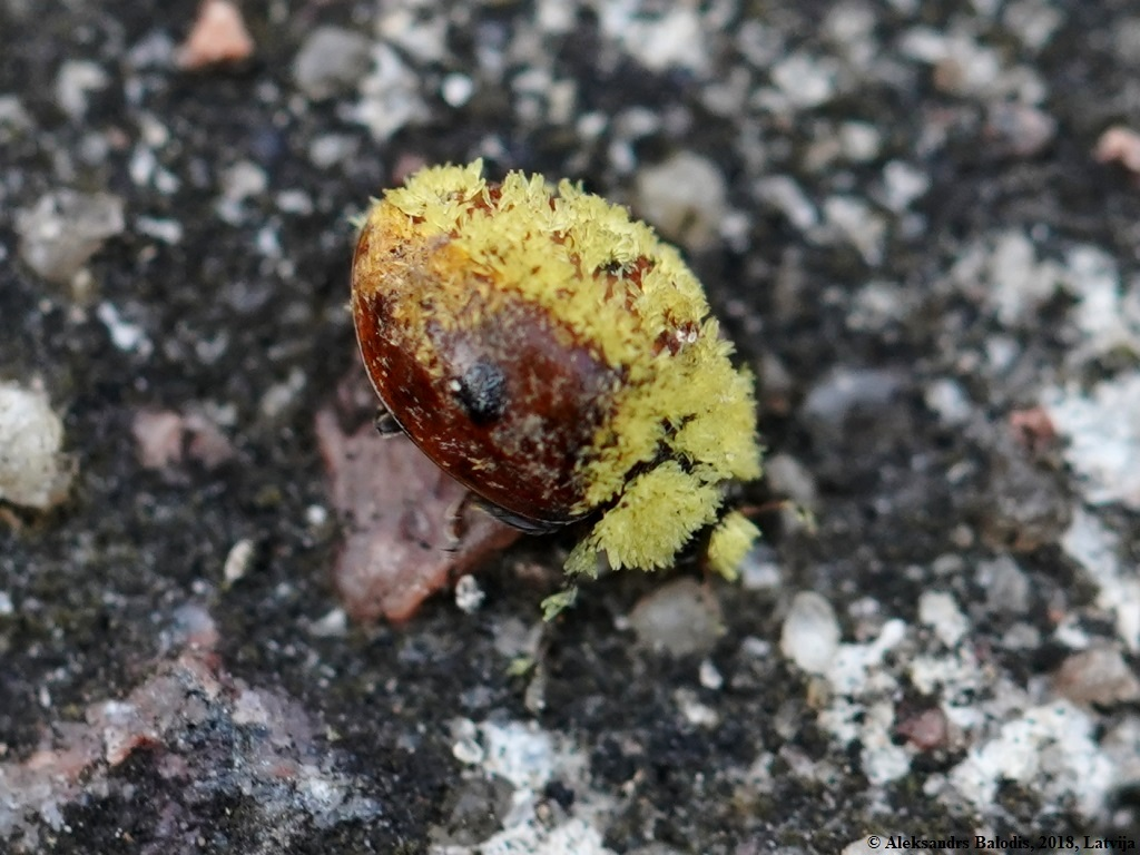 Two-spoted lady beetle (Adalia bipunctata) parasited with entomopathogenous fungus Hesperomyces virescens.